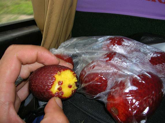 the aguaje (Moriche Palm) fruit. Photo taken in Iquitos, Peru Picture Taken by - Yuval gelber commons:Category:Arecaceae